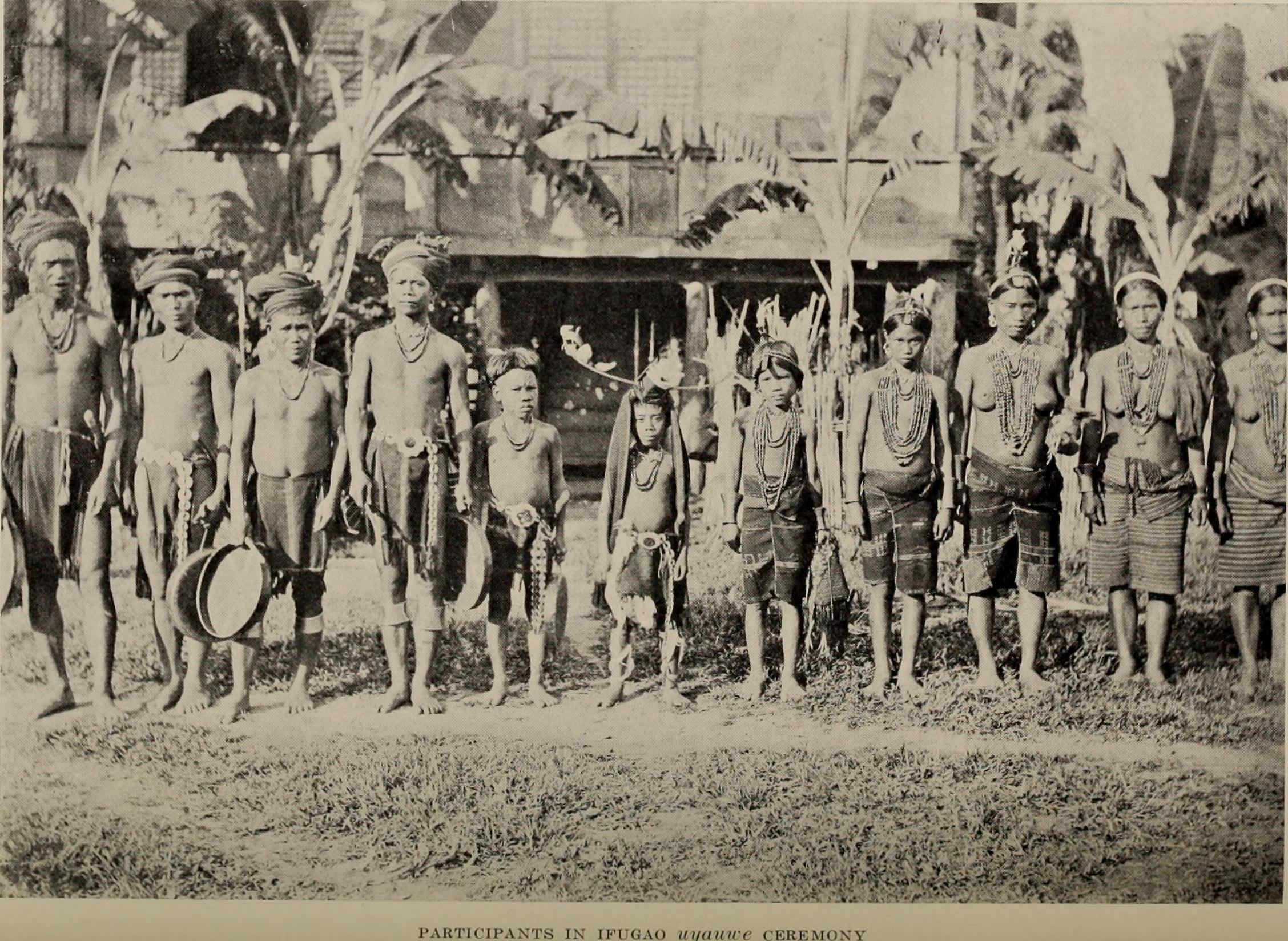 Title: University of California publications in American archaeology and ethnology Year: 1903 (1900s) Authors: University of California (1868-1952) University of California (1868-1952) Publications in American archaeology and ethnology Subjects: Indians Indians of North America Publisher: Berkeley University of California Press Text Appearing Before Image: PLATE 32 The boy and girl iu the center have been recently married and are beingelevated to the rank of kadangyang, or wealthy. The boy carries a cock hangingfrom his belt, tlie girl a hen in her hand. The men and women are kindred ofthe boy and girl. (184) Text Appearing After Image: PLATE 33 When a person of ladangyang rank is placed in the death chair he is dressedin the costume of that rank. These bodies are sometimes kept in the chair foras many as 13 or 15 days. At the right of the picture may be seen the momvahiwa(primitive undertaker), whose business it is to care for the body and finally tocarry it on his shoulders to the sepulchre on the mountain side. For theseservices he receives a very trifling compensation. Note that the treatment ofthe bodies of those dead from natural causes is very different from the treatmentof the bodies of the murdered or those dead by violence. The former are showngreat care and respect; the latter are neglected and bereft of the usual dignitiesof death. (186) UNIV, CALIF. PUBL. AM. ARCH. & ETHN. VOL. 15 (BARTON) PLATE 33